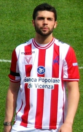 Crop of File:Formazione Vicenza Calcio in Vicenza-Cittadella.JPG